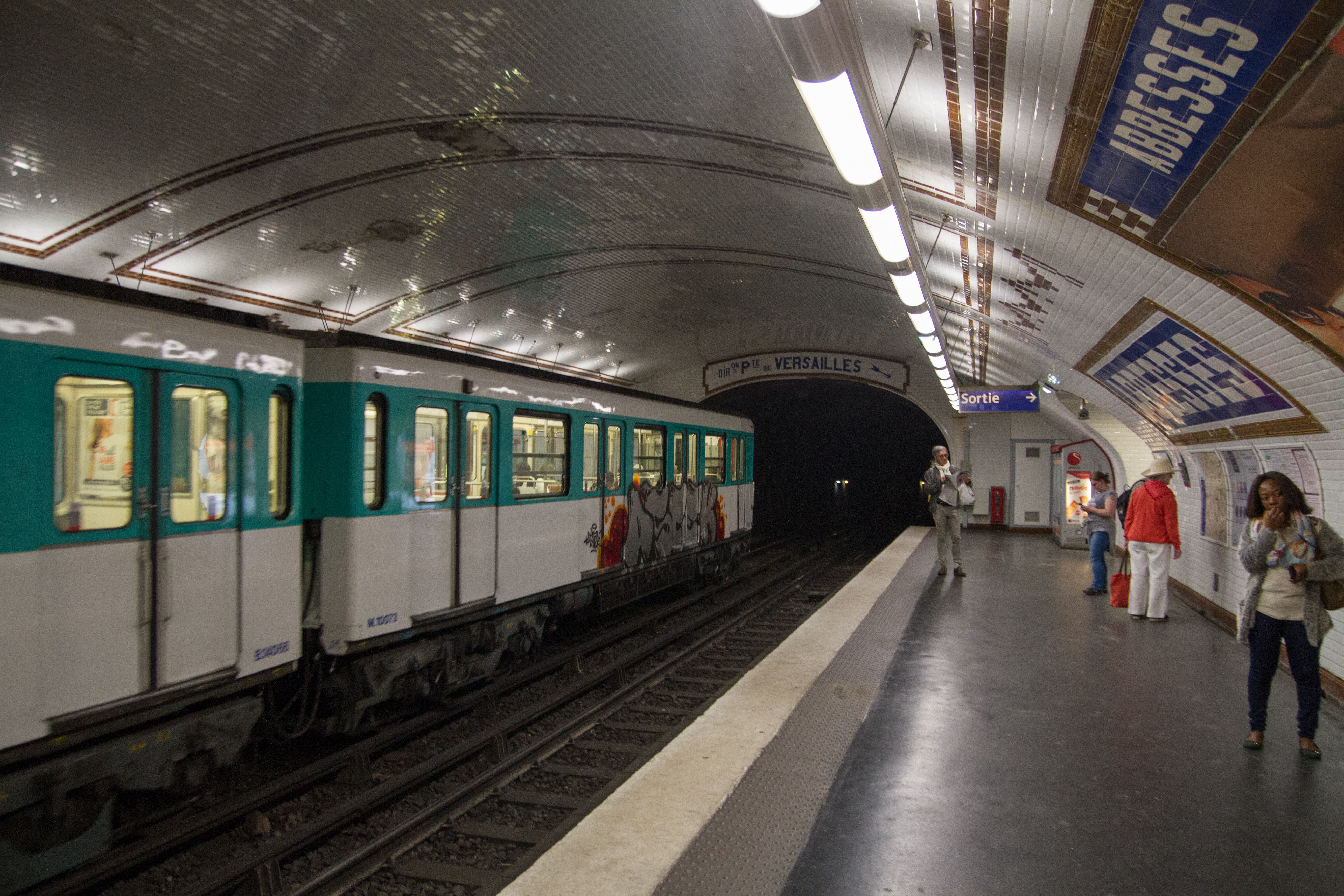 Abbesses (Paris Metro)